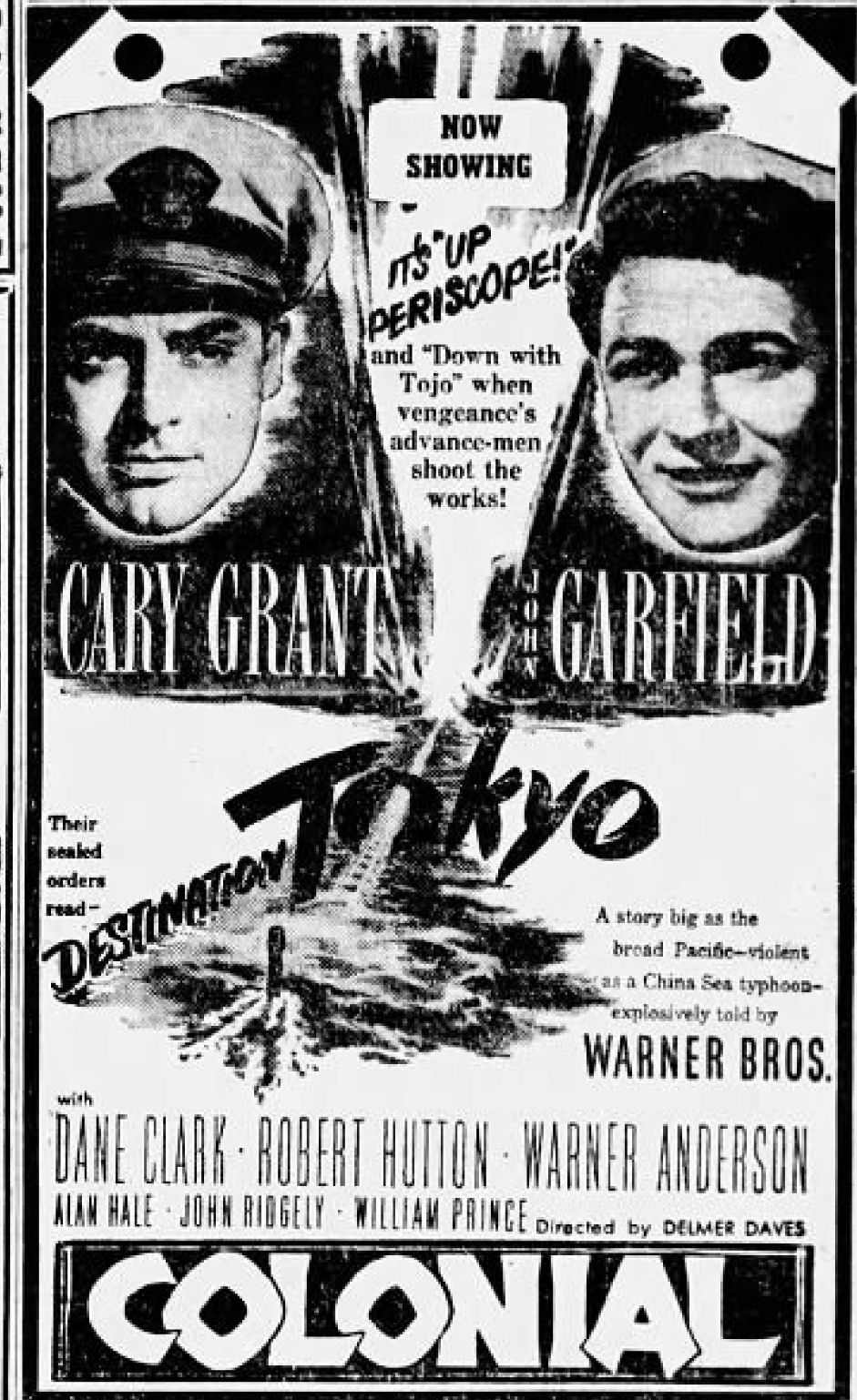 Colonial Theater advertisement for the American war film Destination Tokyo (1943) - 8 Jan. 1944 Morning Call, Allentown PA